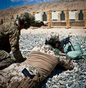 A rifleman with Company A, 1st Battalion, 125th Infantry Regiment, 37th Infantry Brigade Combat Team, provides assistance to a German soldier, assigned to Task Force Kunduz, firing a M249 light machine gun during range fire held on Forward Operating Base Kunduz, Kunduz, Afghanistan